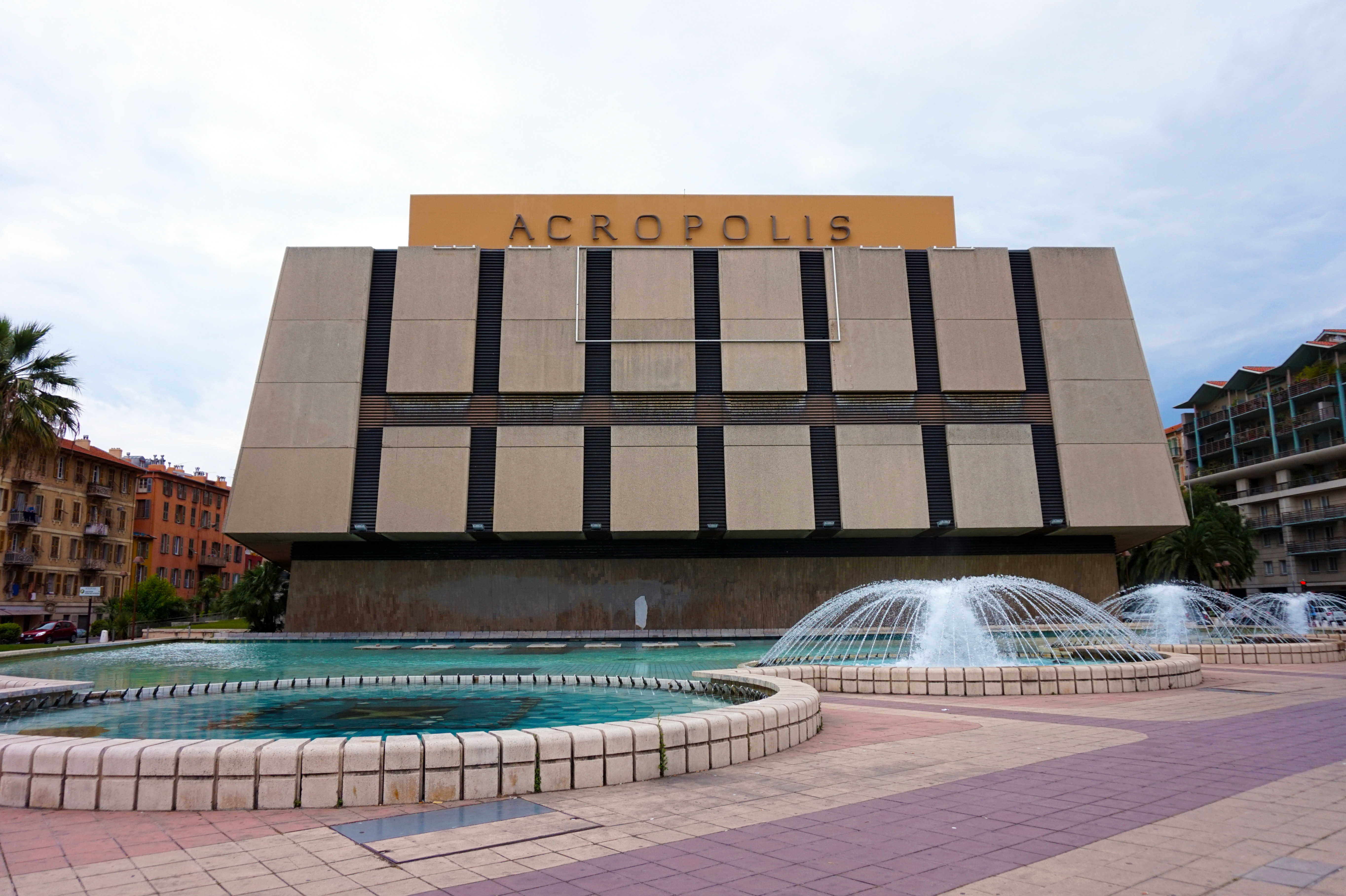 Acropolis, Nice.This photograph was taken with a Sony ILCE-5000